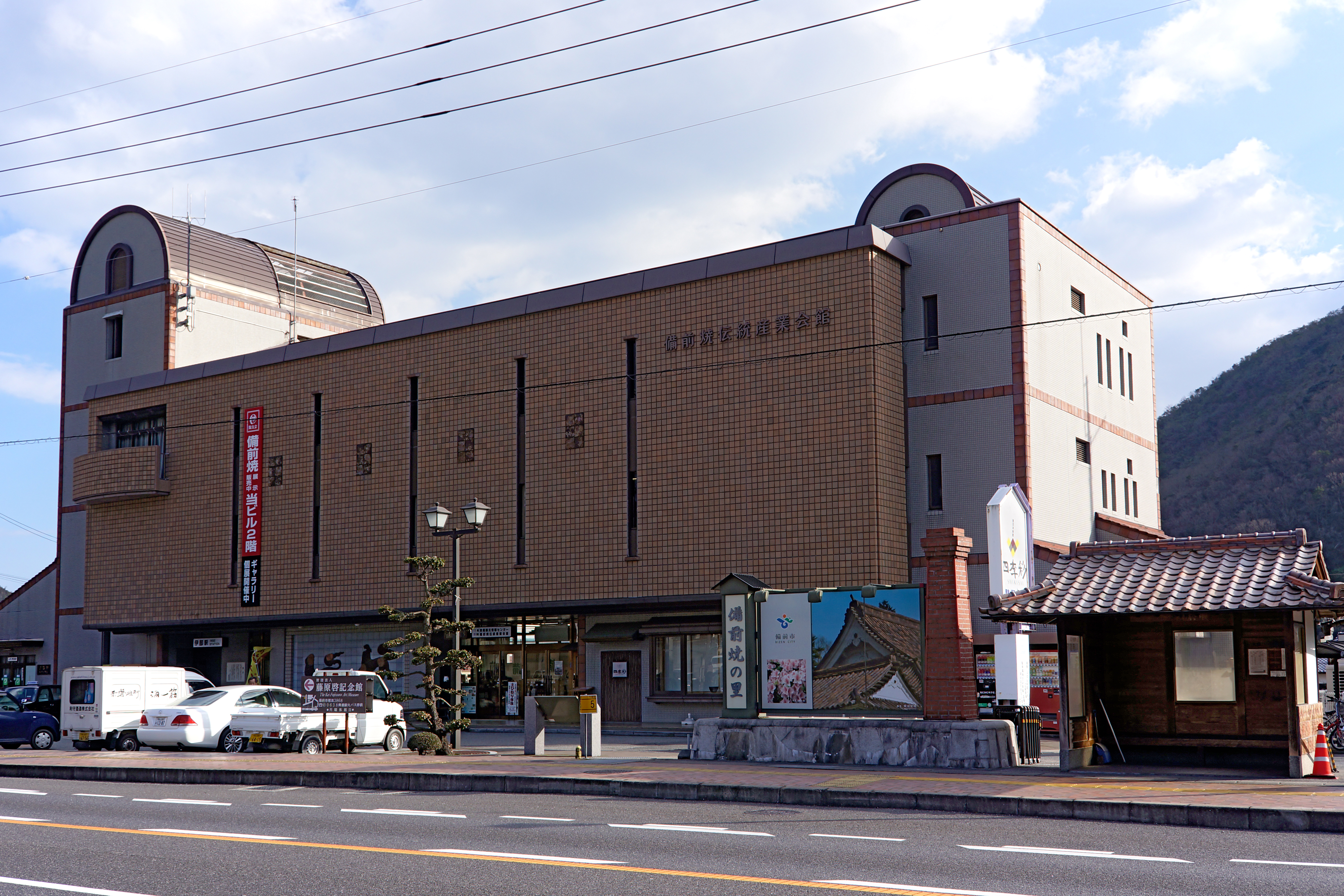 Bizen-yaki_Traditional_Pottery_Center in Imbe, Bizen, Okayama prefecture, Japan